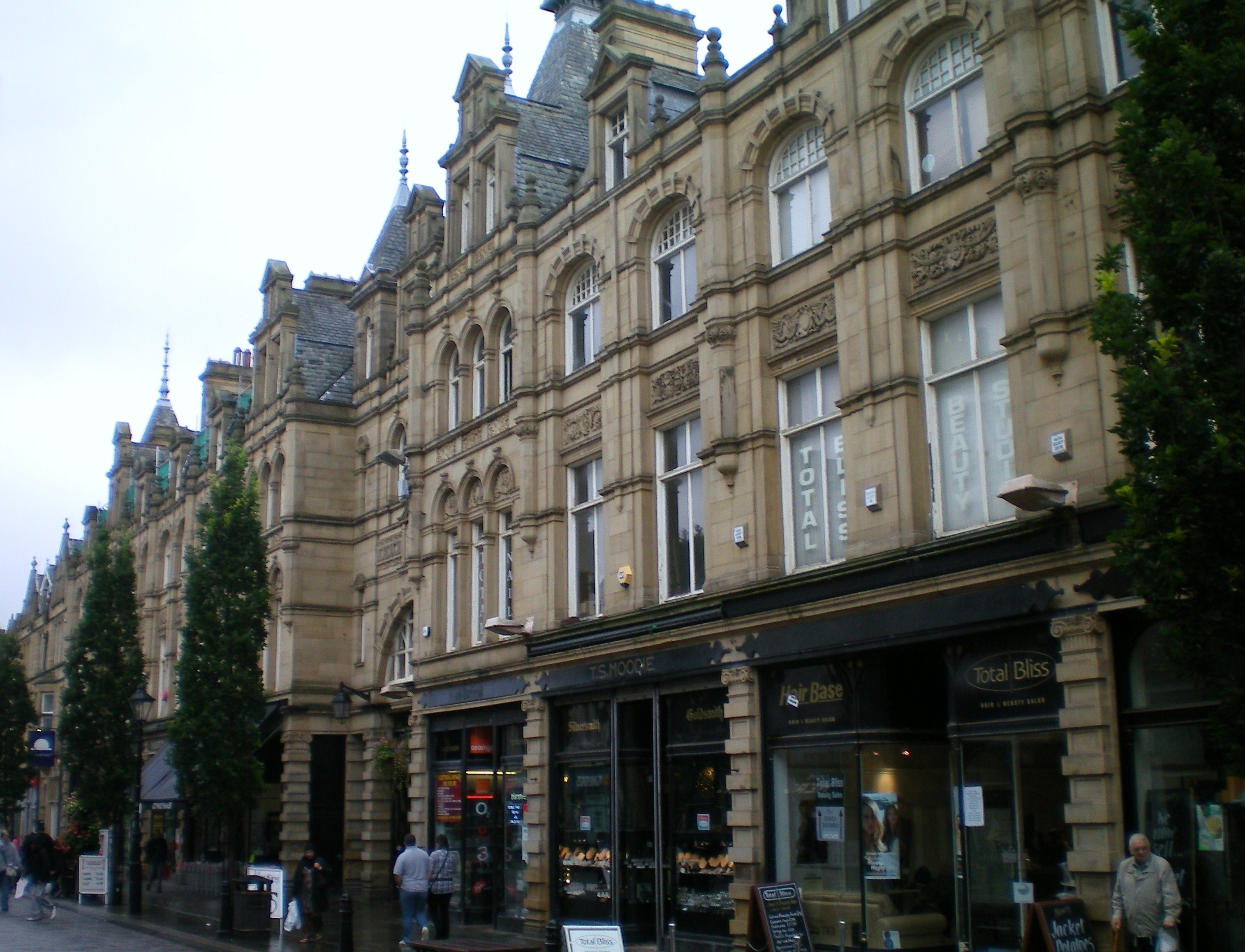 Borough Market, a Victorian covered market in Halifax, West Yorkshire, England.